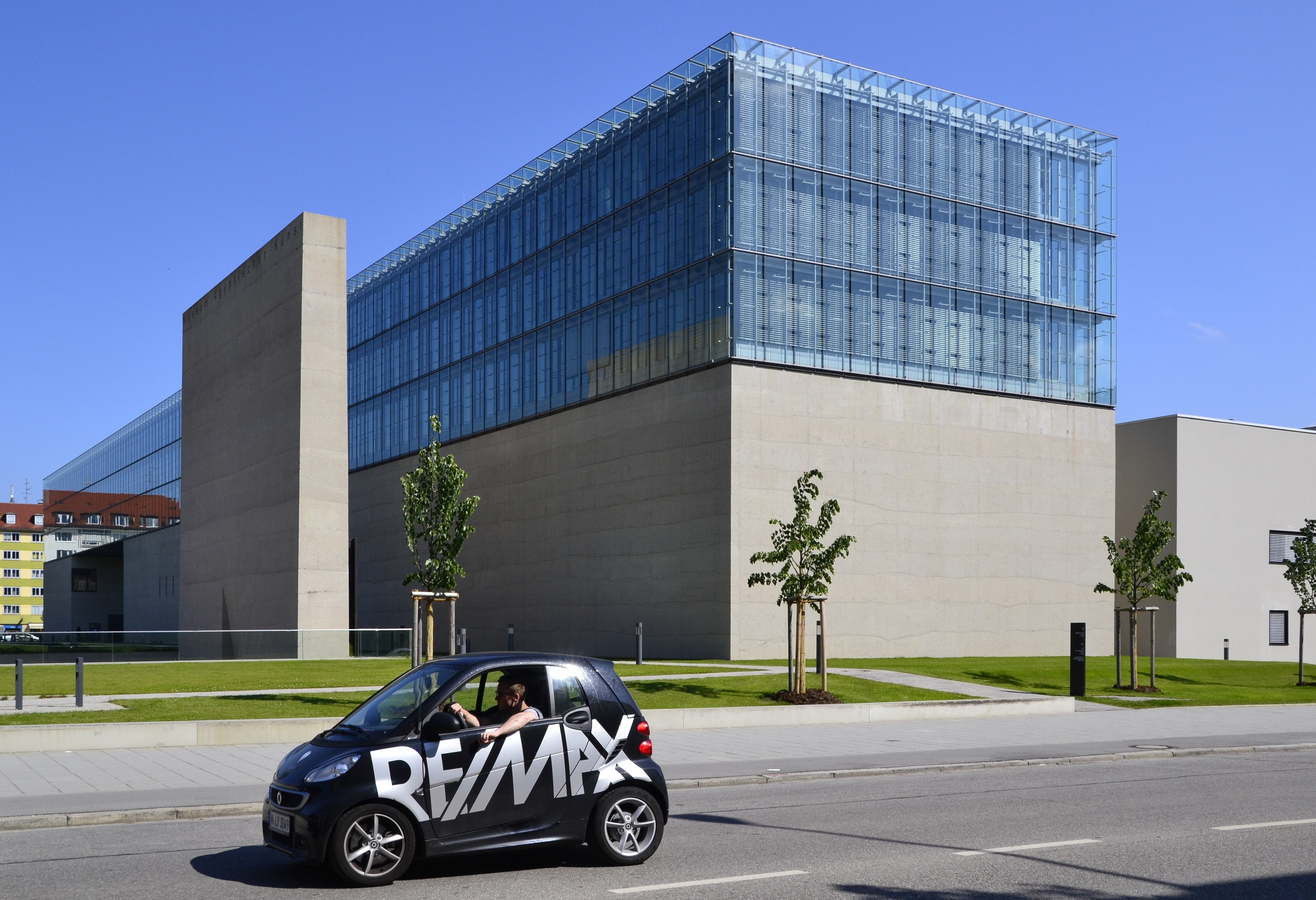 The State Museum of Egyptian Art and the HFF in Munich, Germany.